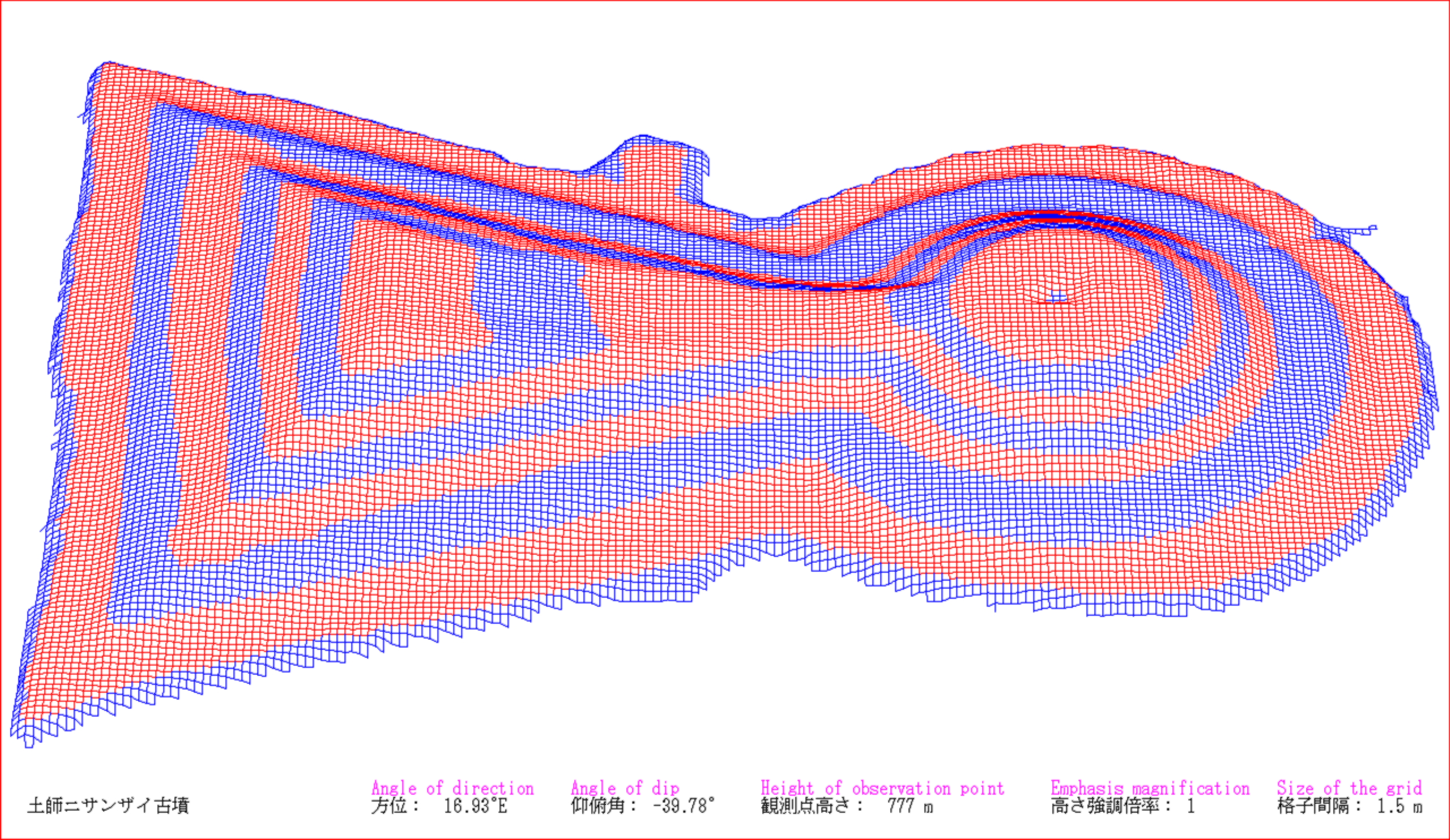 I who am a contributor drew the picture by a software which developed by myself. The survey map which I referred to depends on "「ニサンザイ古墳」『百舌鳥古墳群測量図集成』堺市 (2015年）". This is a drawing of present situation (not a drawing of a restored mound). The drawing depends on combination of wire frame and height eight phases classification. Perspective projection.